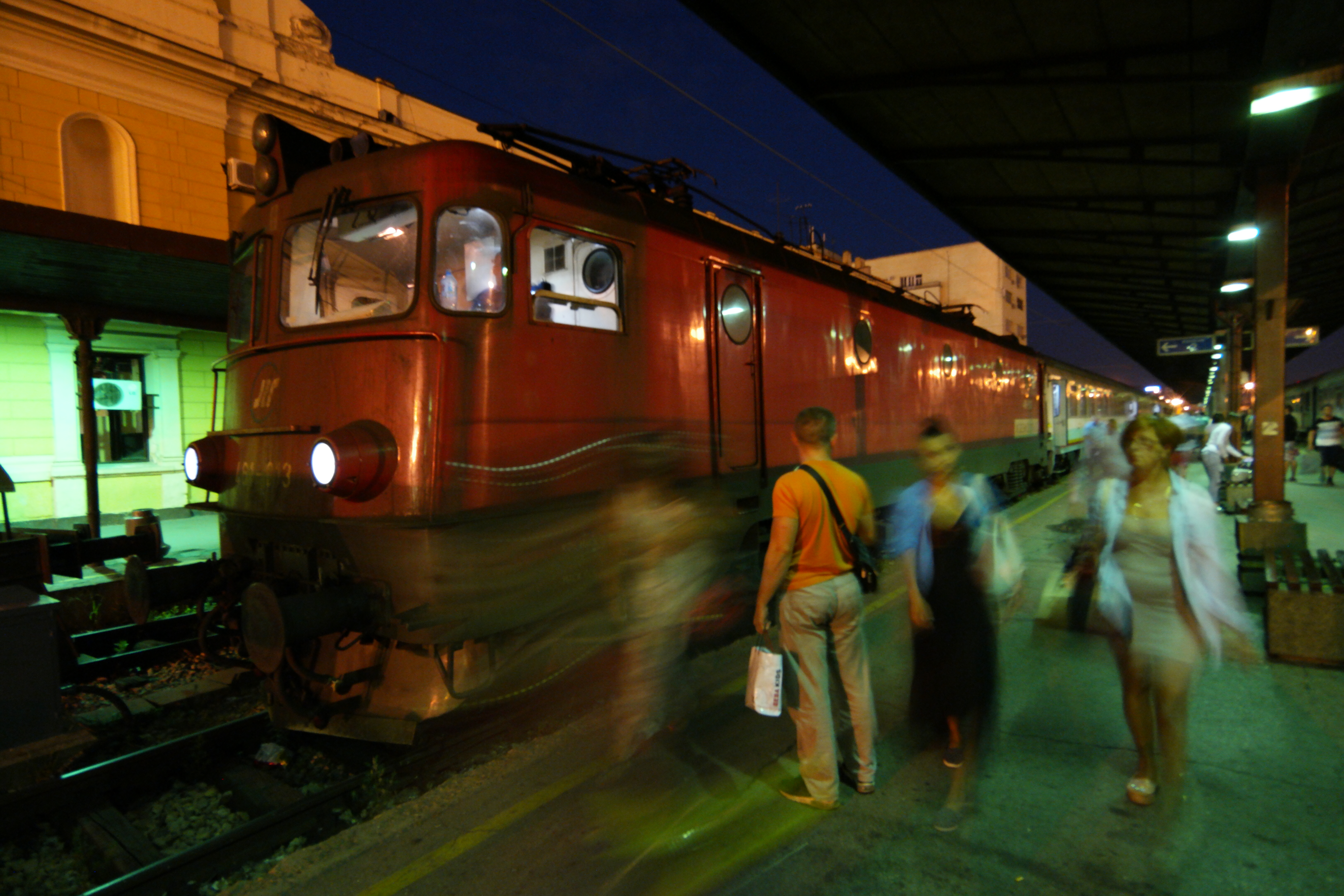 Belgrade main central Arrival of Belgrade-Bar train